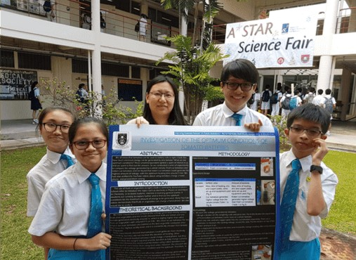 The school students participating at the A*STAR Science Fair held at VJC in 2017.